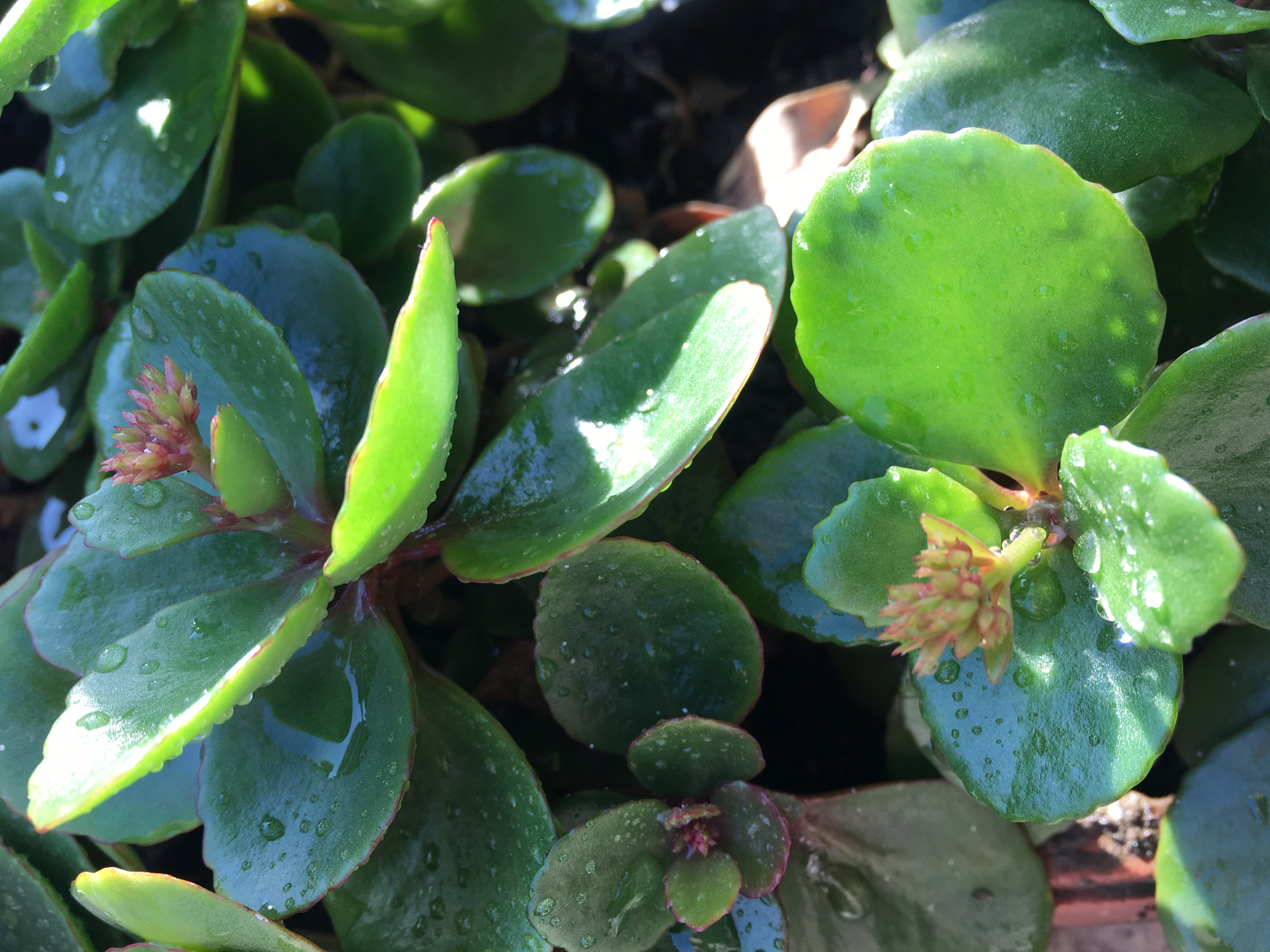 flaming Katy, Christmas kalanchoe, florist kalanchoe and Madagascar widow's-thrill